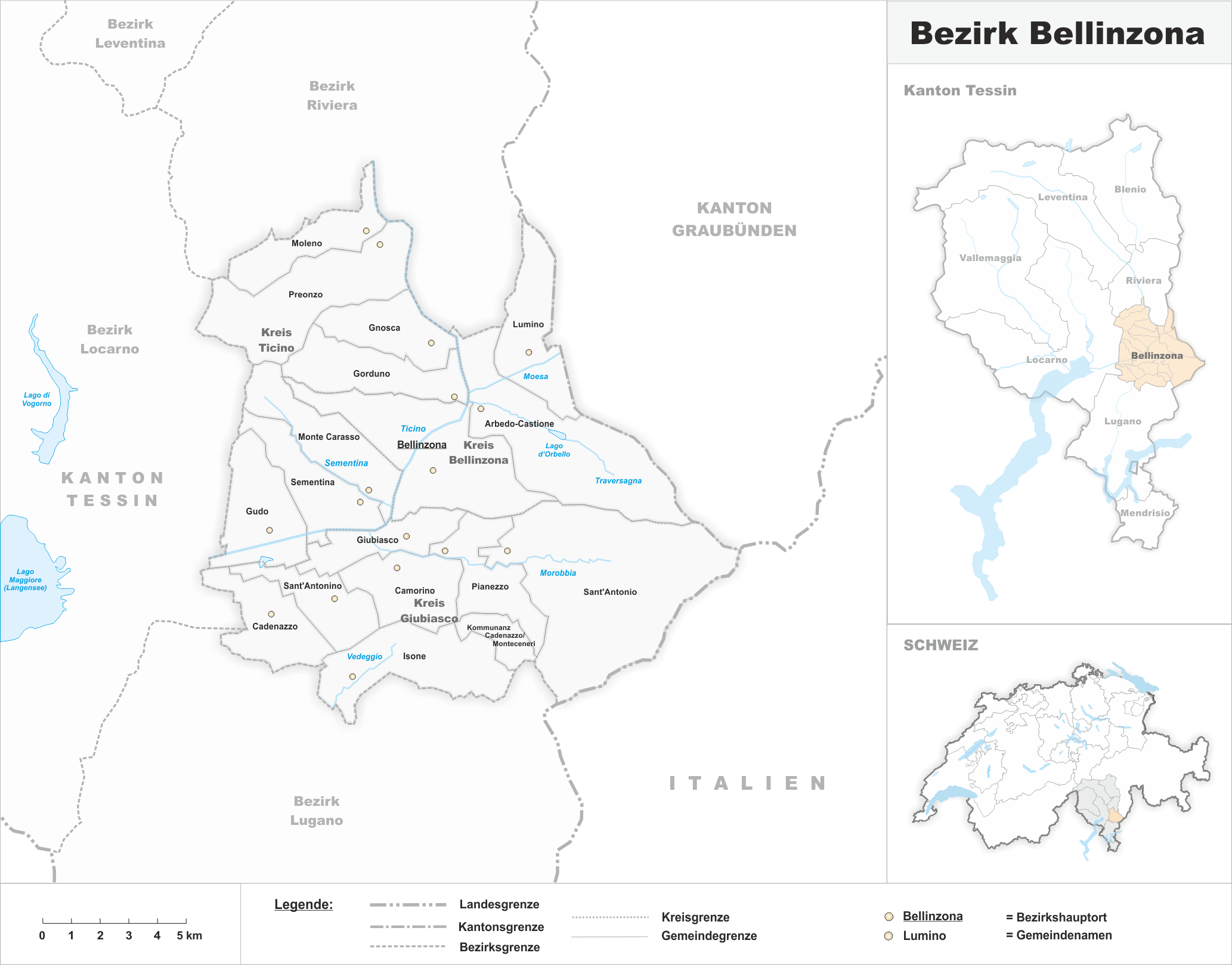 Municipalities in the district of Bellinzona